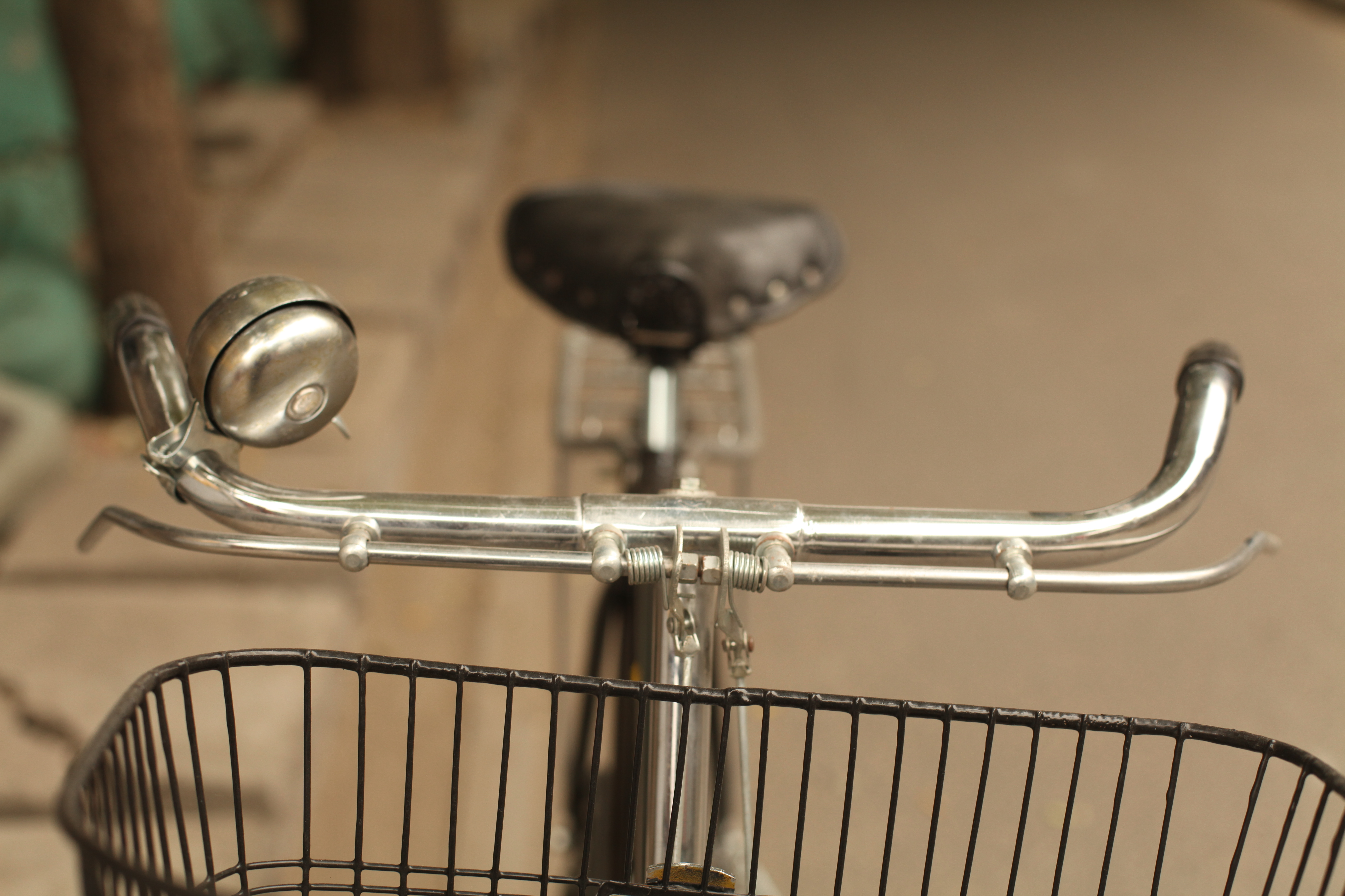 website 回 twitter 回 facebook